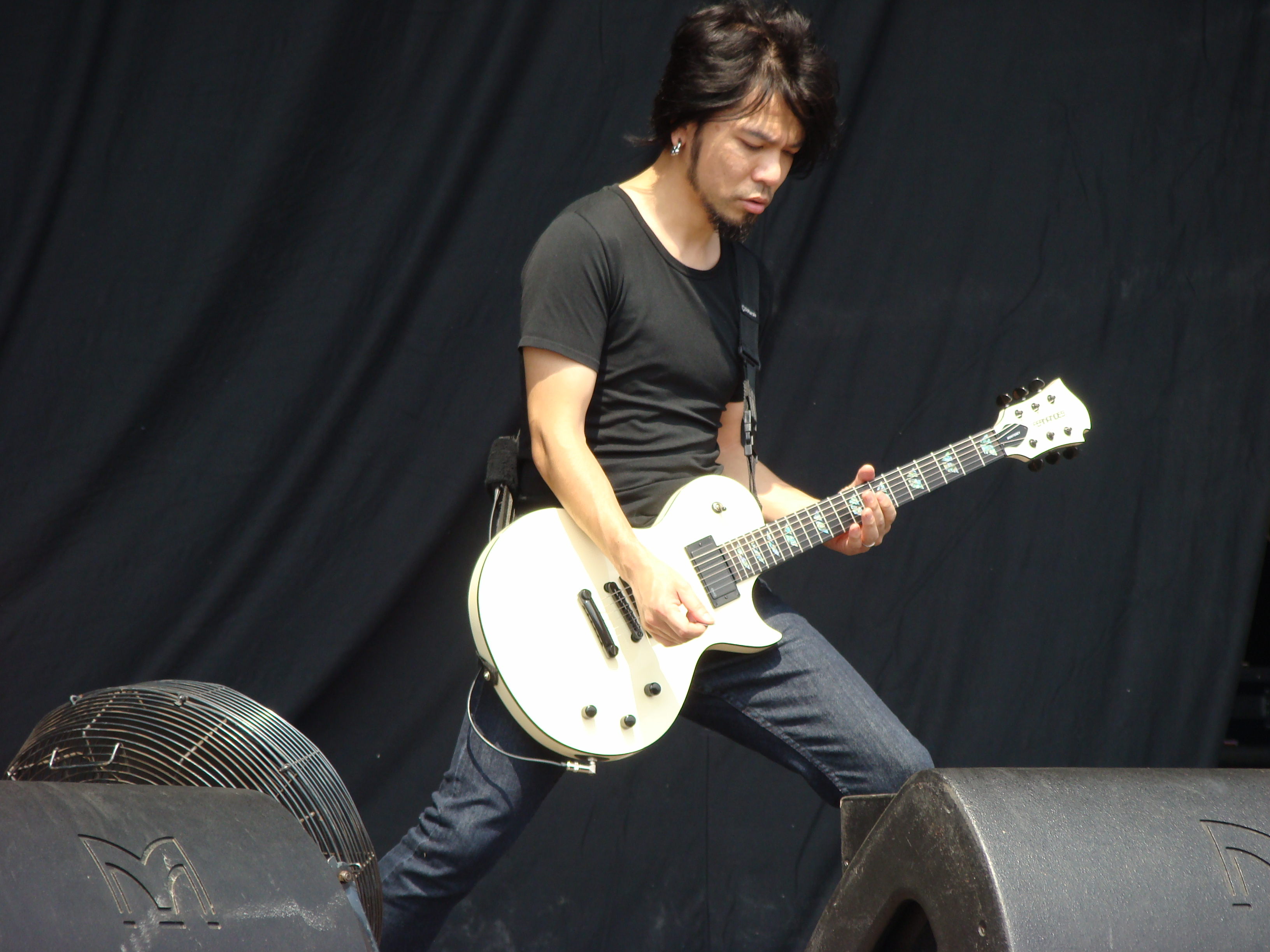 Cropped from this [1]